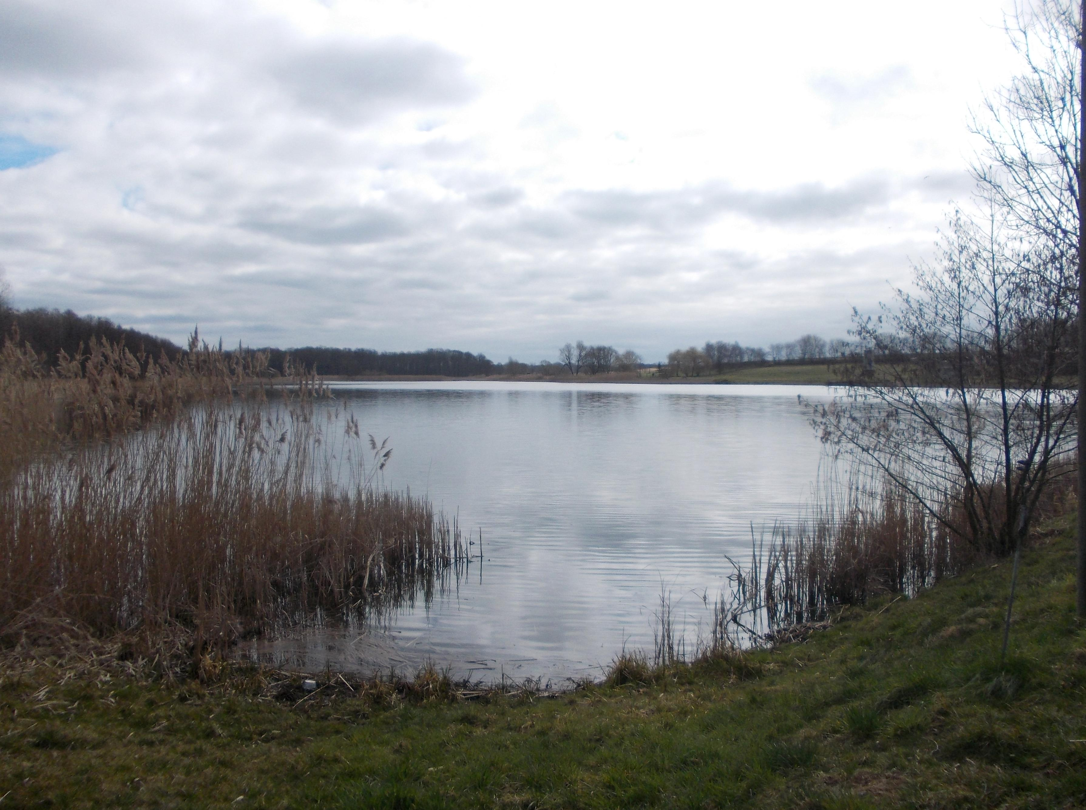 The Big Pond in Reibitz (Löbnitz, Nordsachsen district, Saxony)